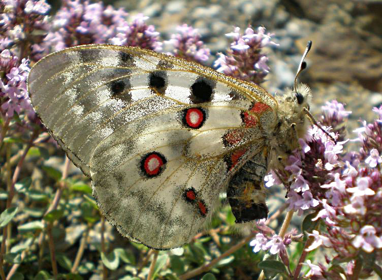 Female near El Tarter, Andorra. Hit by a car, died minutes after.